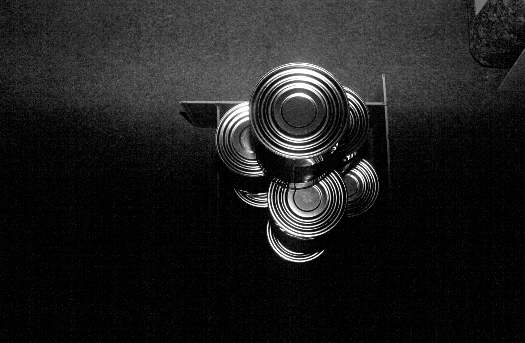 title:moneis; installation of panels and cans